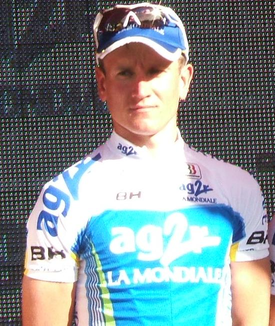 Named cyclist at the en:2009 Tour Down Under team presentation